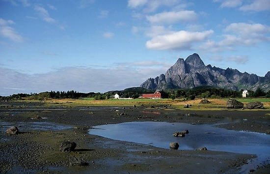 Vågakallen, Lofoten (Norway), seen from near Kabelvåg.